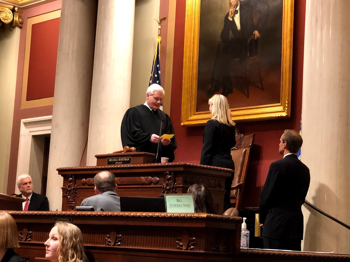 Melissa Hortman Swearing-in 2019